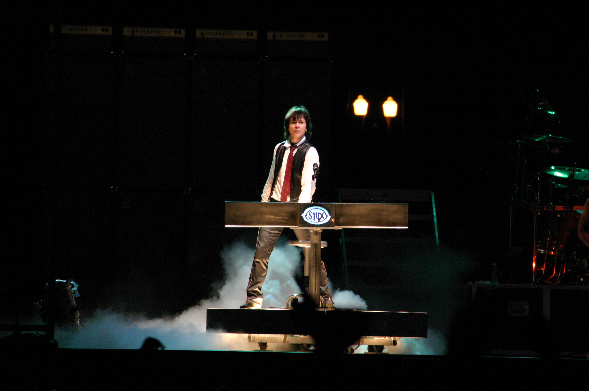 Lawrence Gowan, solo artist and now member of the Styx rock band. from the cheap seats at the Styx concert at Beloit Riverfest.